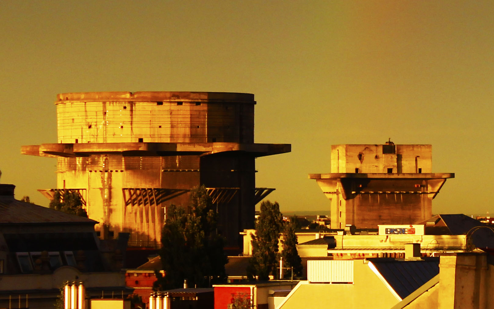 Augarten G-Tower and L-Tower in Vienna.